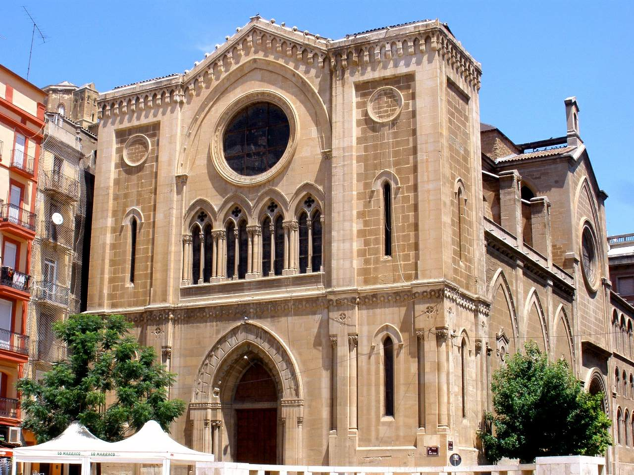 Iglesia de Sant Joan (Lleida)